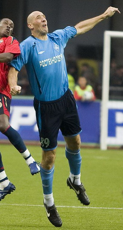 Jan Koller